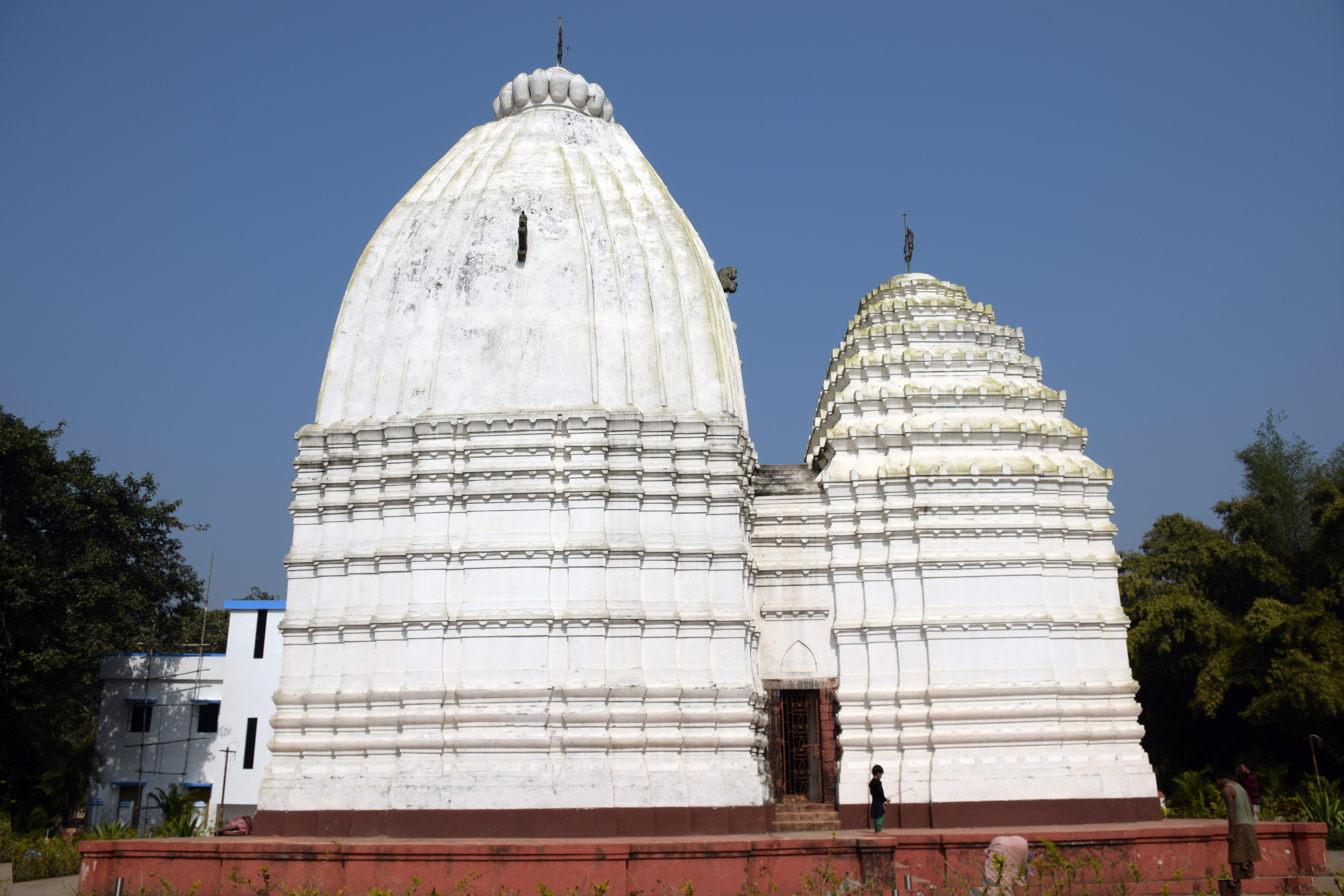 Jagannath Deul temple at Dihi Bahiri under Purba Medinipur district in West Bengal.